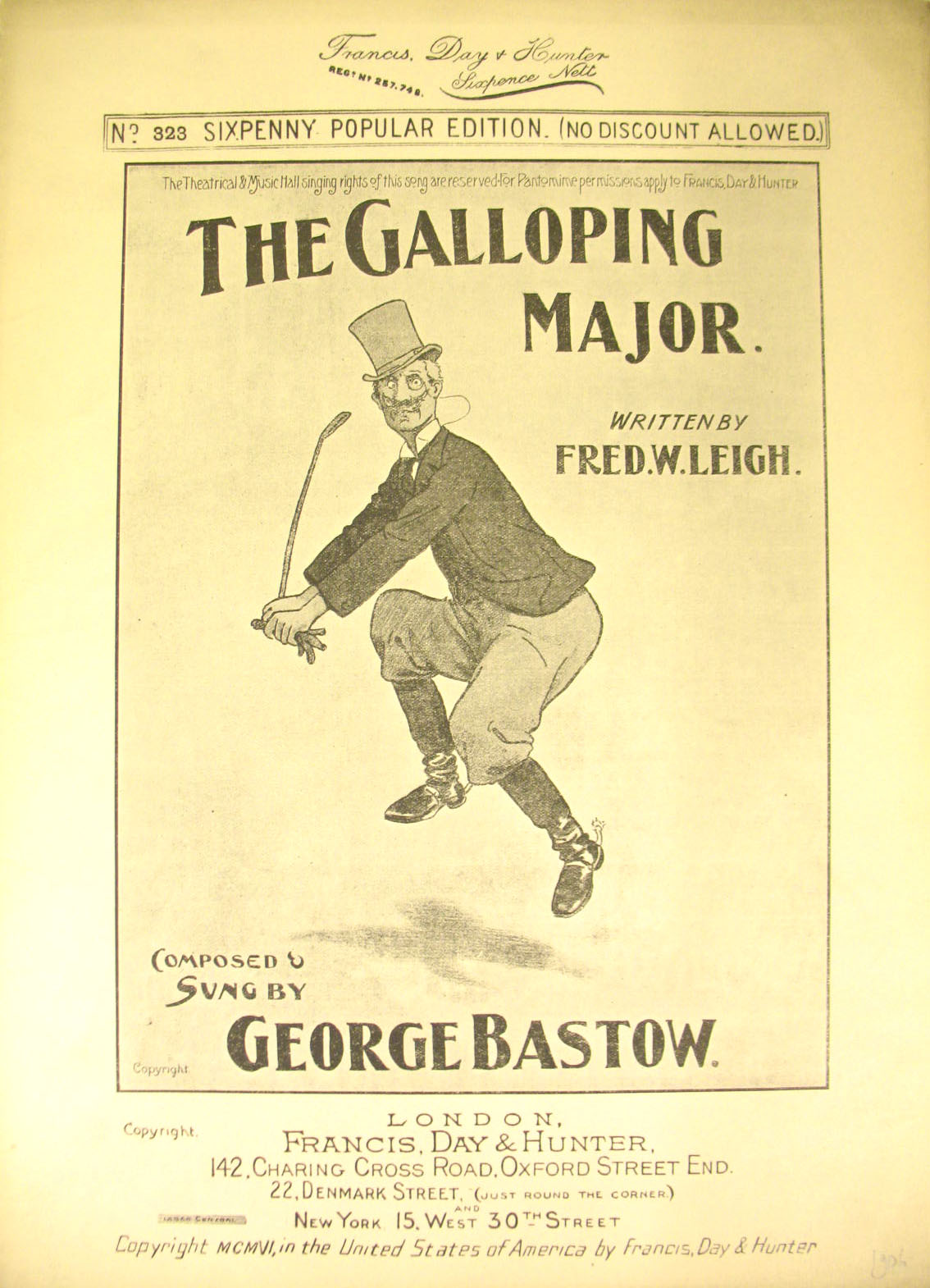 The front cover of the sheet music for the song "The Galloping Major" published in the 1900s.